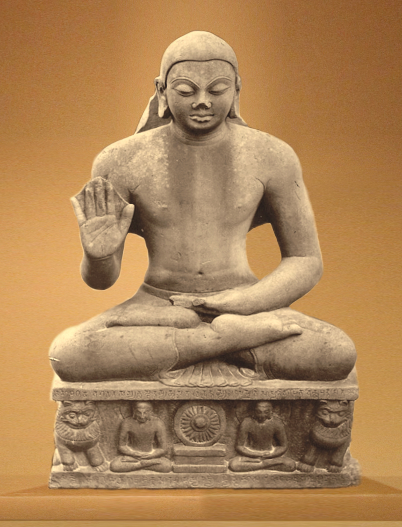 Mankuwar Buddha with background. Inscription: 1 Om Namo Budhana Bhagavato samyak-sambuddhasya sva-mat- aviruddhasya iyam pratima pratishthapita bhikshu-Buddhamitrena 2 Samvat 100 20 9 maharaja-Sri-Kumaraguptasya rajyee Jyeshtha-masa di 10 8 sarvva-duhkkha-prahan(n)-arttham Om! Reverence to the Buddhas! This image of the Divine One, who thoroughly attained perfect knowledge, (and) who was never refuted in respect of his tenets, has been installed by the Bhikshu Buddhamitra, (in) the year 100 (and) 20 (and) 9; in the reign of the Maharaja, the glorious Kumaragupta; (in) the month Jyeshtha; (on) the day 10 (and) 8, — with the object of averting all Unhappiness. Inscriptions of the early Gupta p.46-47